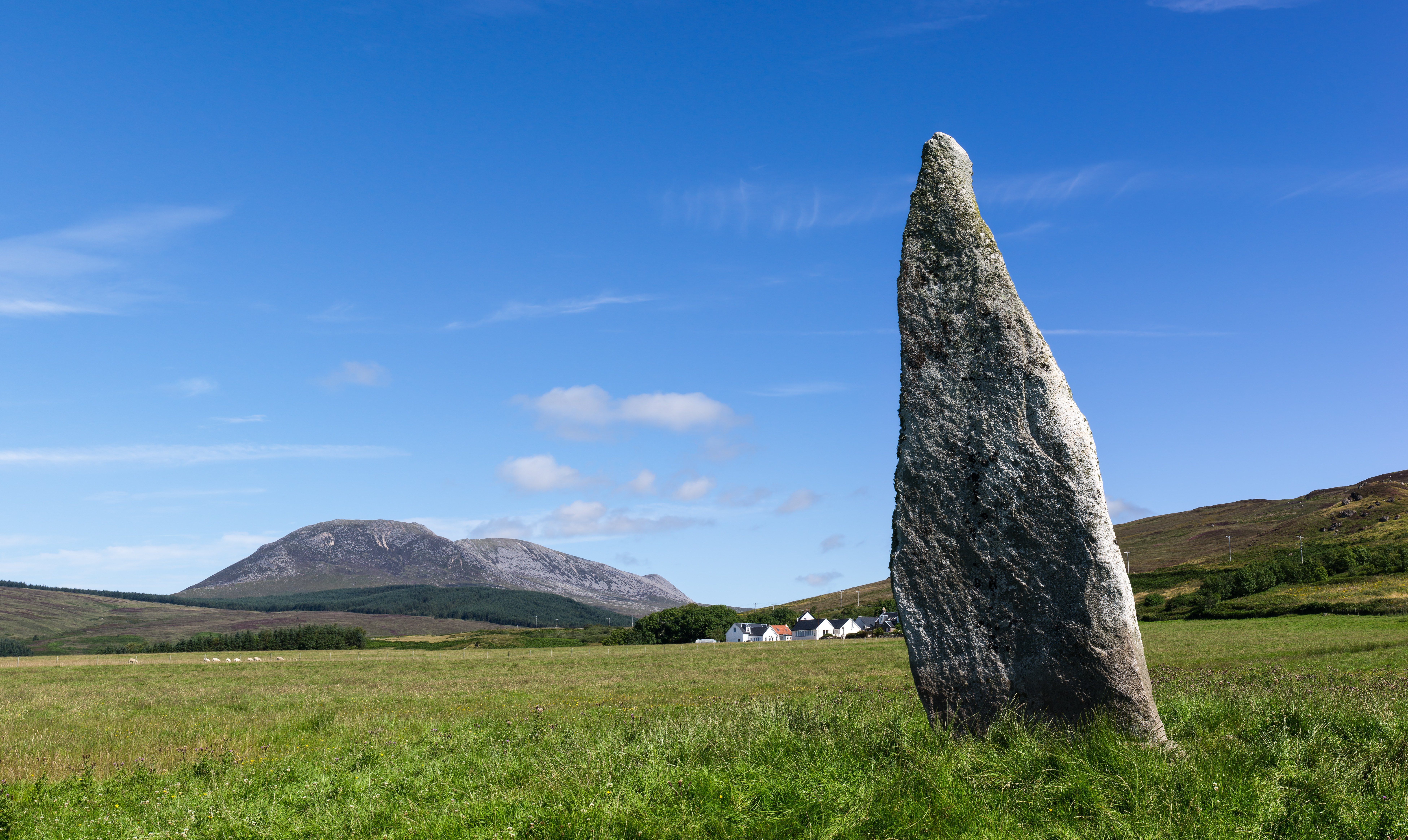 Auchencar standing stone with farm in background, Isle of Arran. Also known as the "Druid" stone. It is 5m tall, 1.5m broad at base and 0.3m thick. See RCAHMS website.